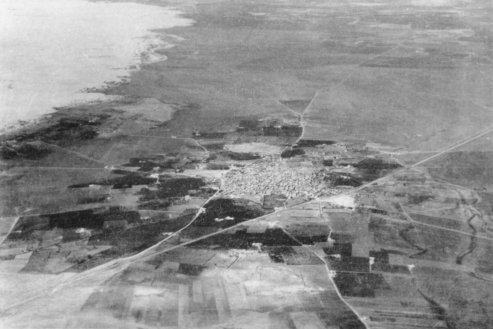 Aerial view of Isdud pre 1935